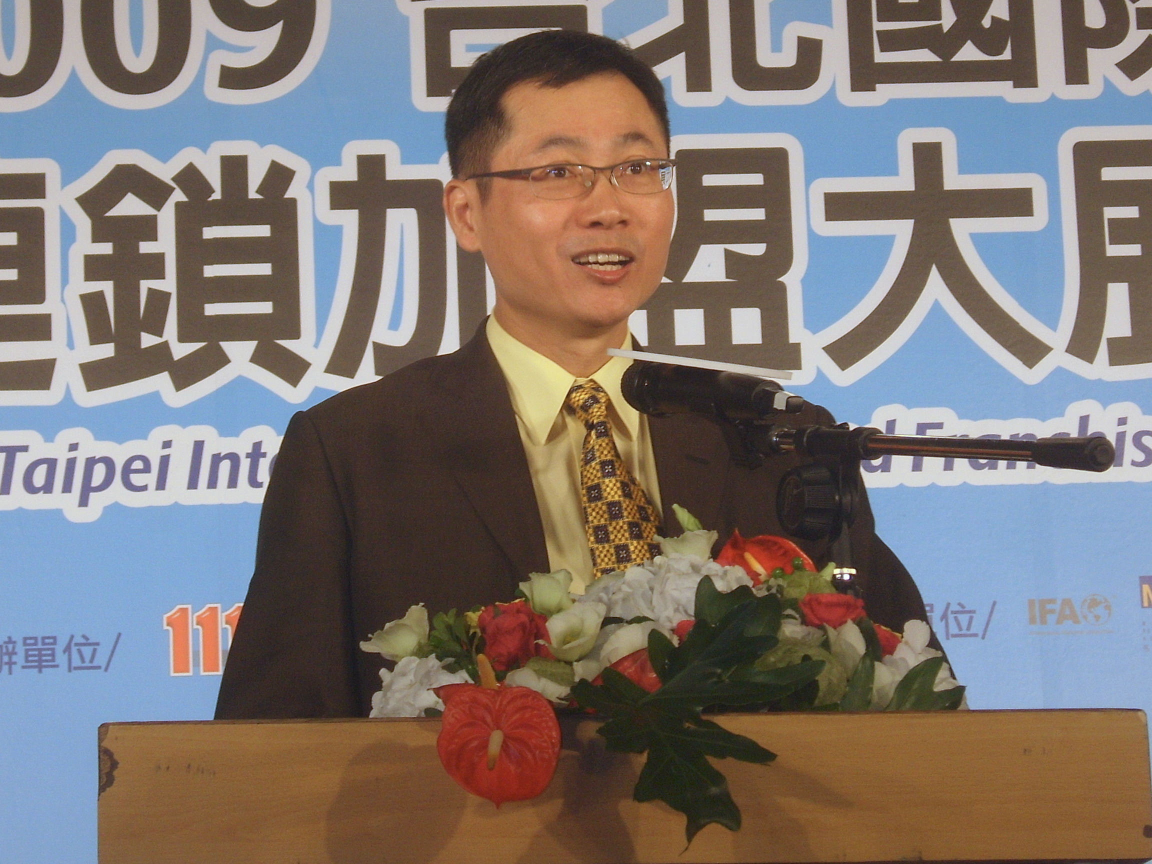 Jin-lin Lai at 2009 Taipei International Chain and Franchise Exhibition.